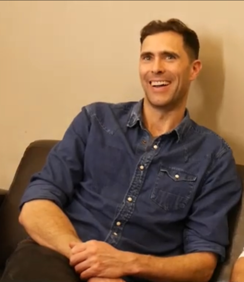 This is Tim Rice-Oxley.